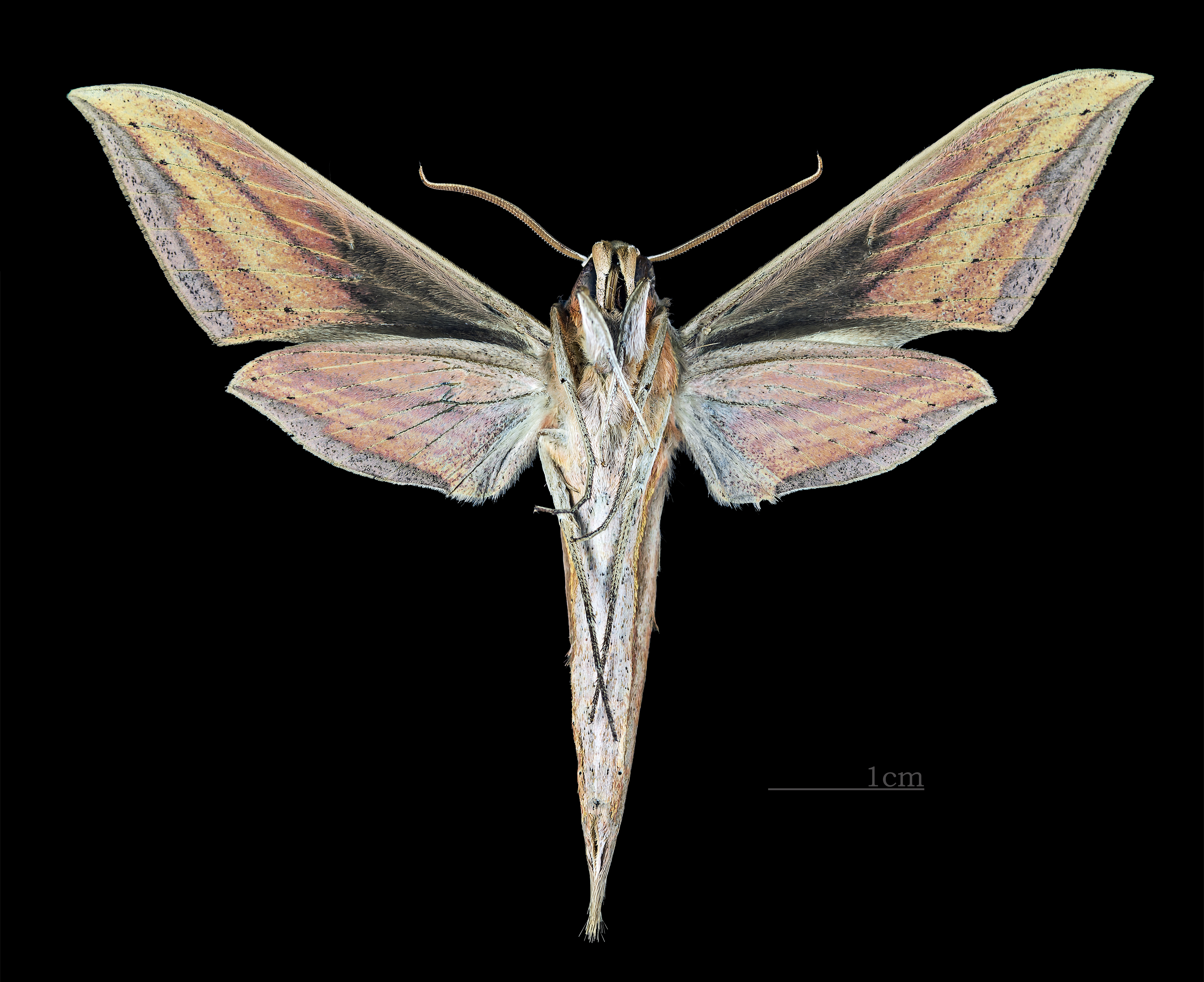 Xylophanes neoptolemus - △ Ventral side Collection of the Mathematician Laurent Schwartz